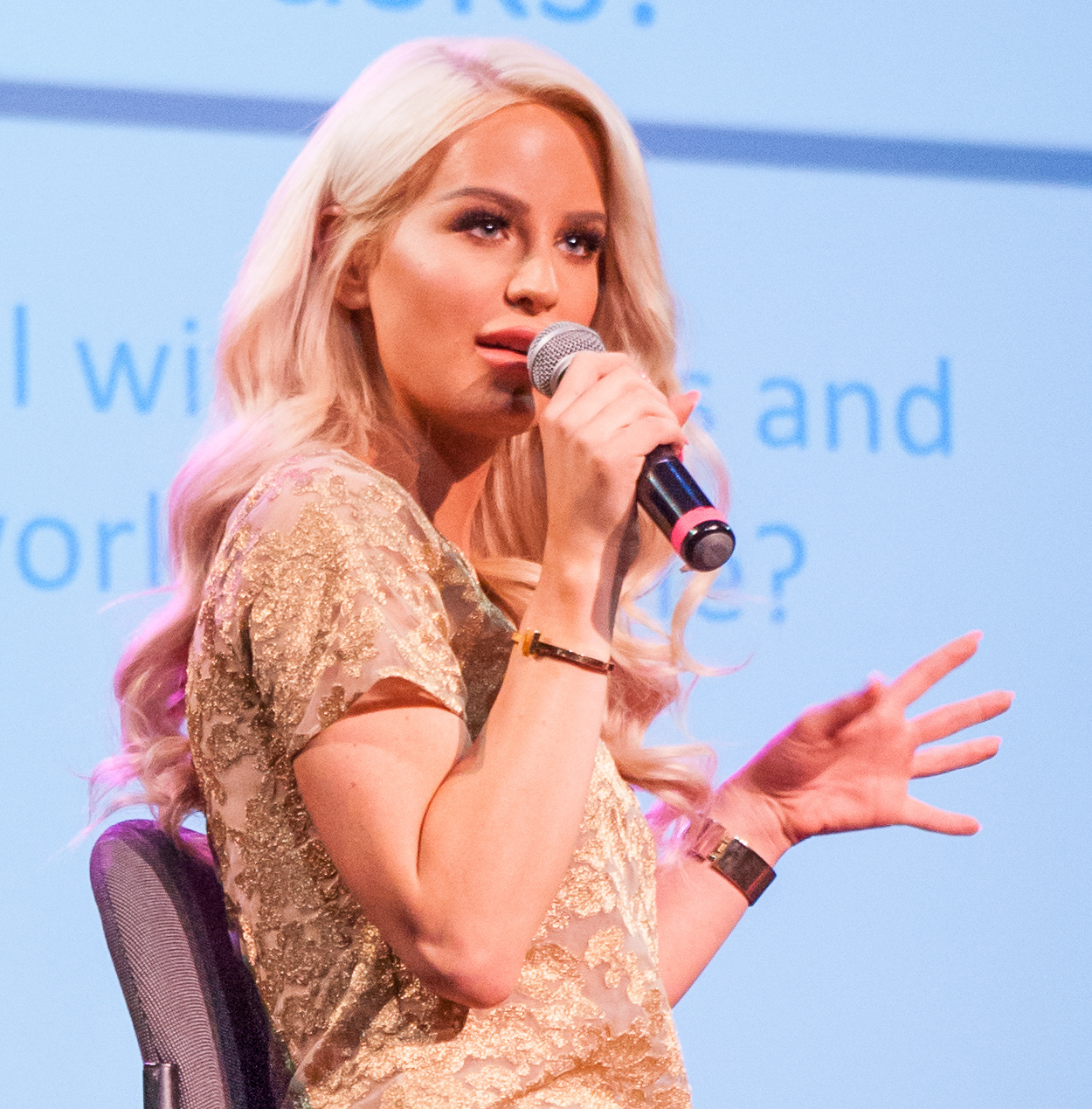 Gigi Gorgeous answers questions on stage at the Trans Day of Visibility celebration in San Francisco, March 31, 2017.